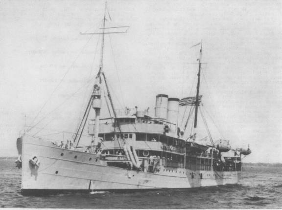 USS Kittery (AK-2), formerly the Hamburg America Liner D/S Präsident.